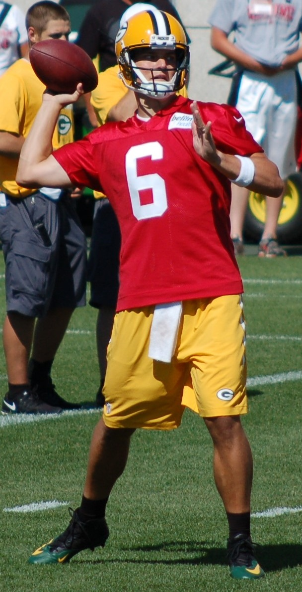 2015 Packers training camp